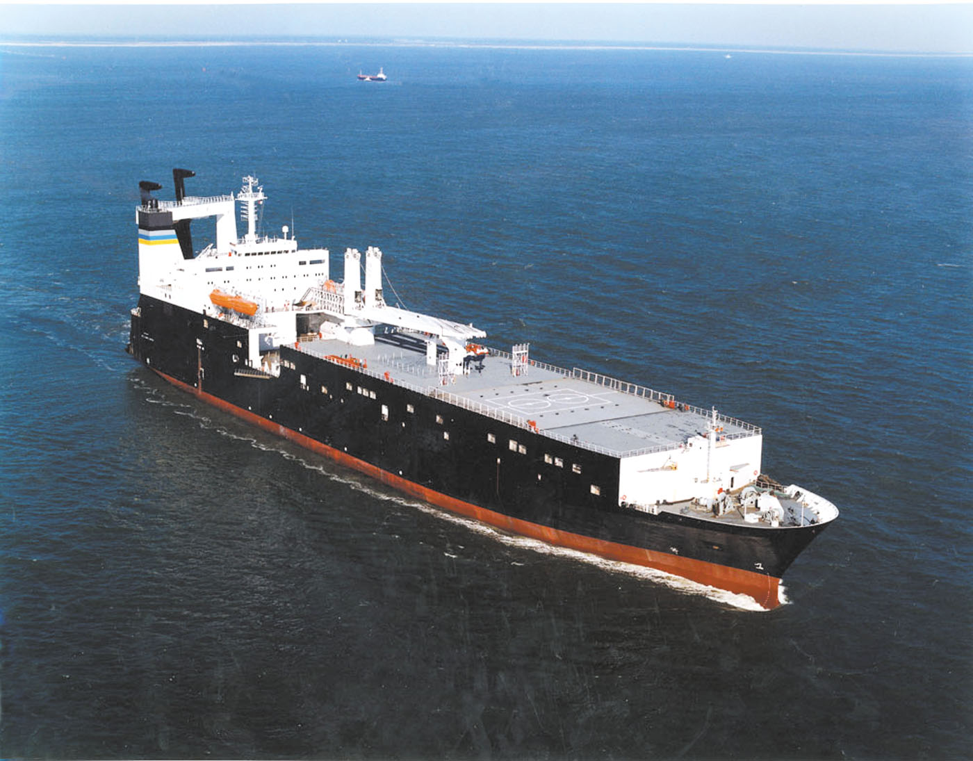 USNS 1st Lt. Harry L. Martin (T-AK-3015) underway shortly after being acquiried by the U.S. Navy for use by the Military Sealift Command.